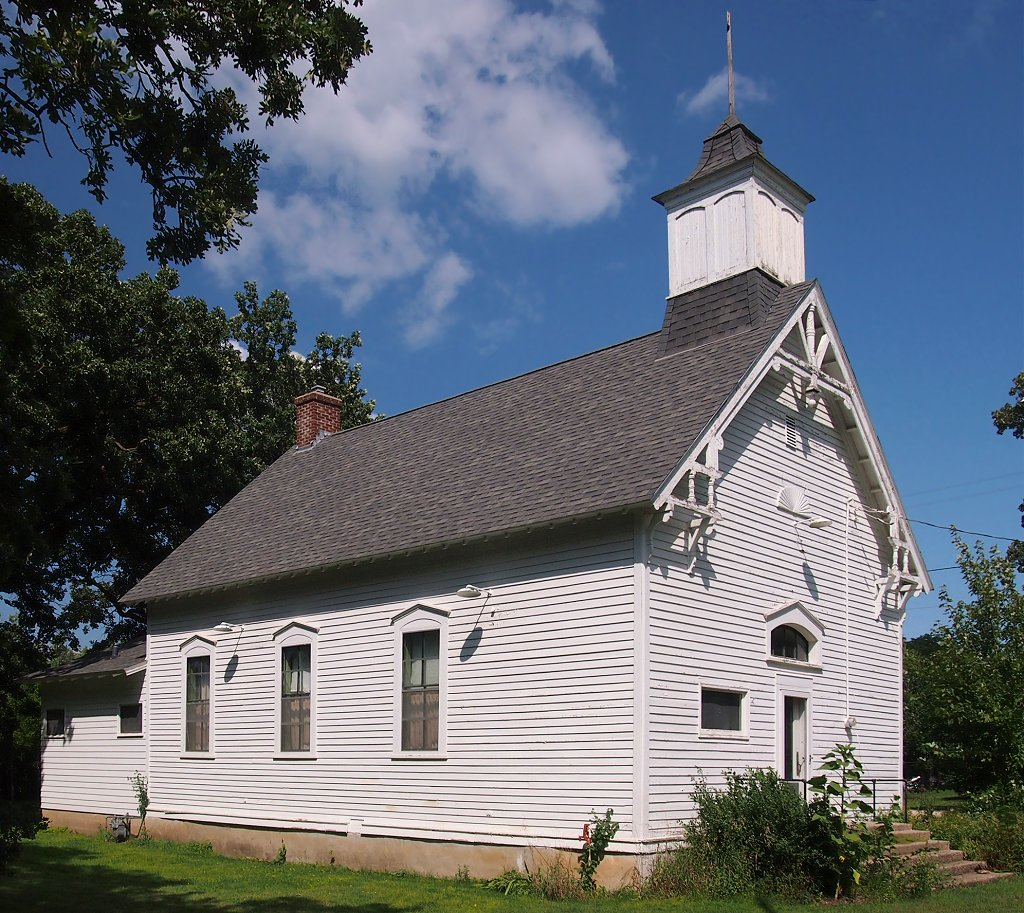 District No. 72 School, Waterford, Minnesota, USA. Shot from the southwest on a stepstool, corrected for perspective distortion.